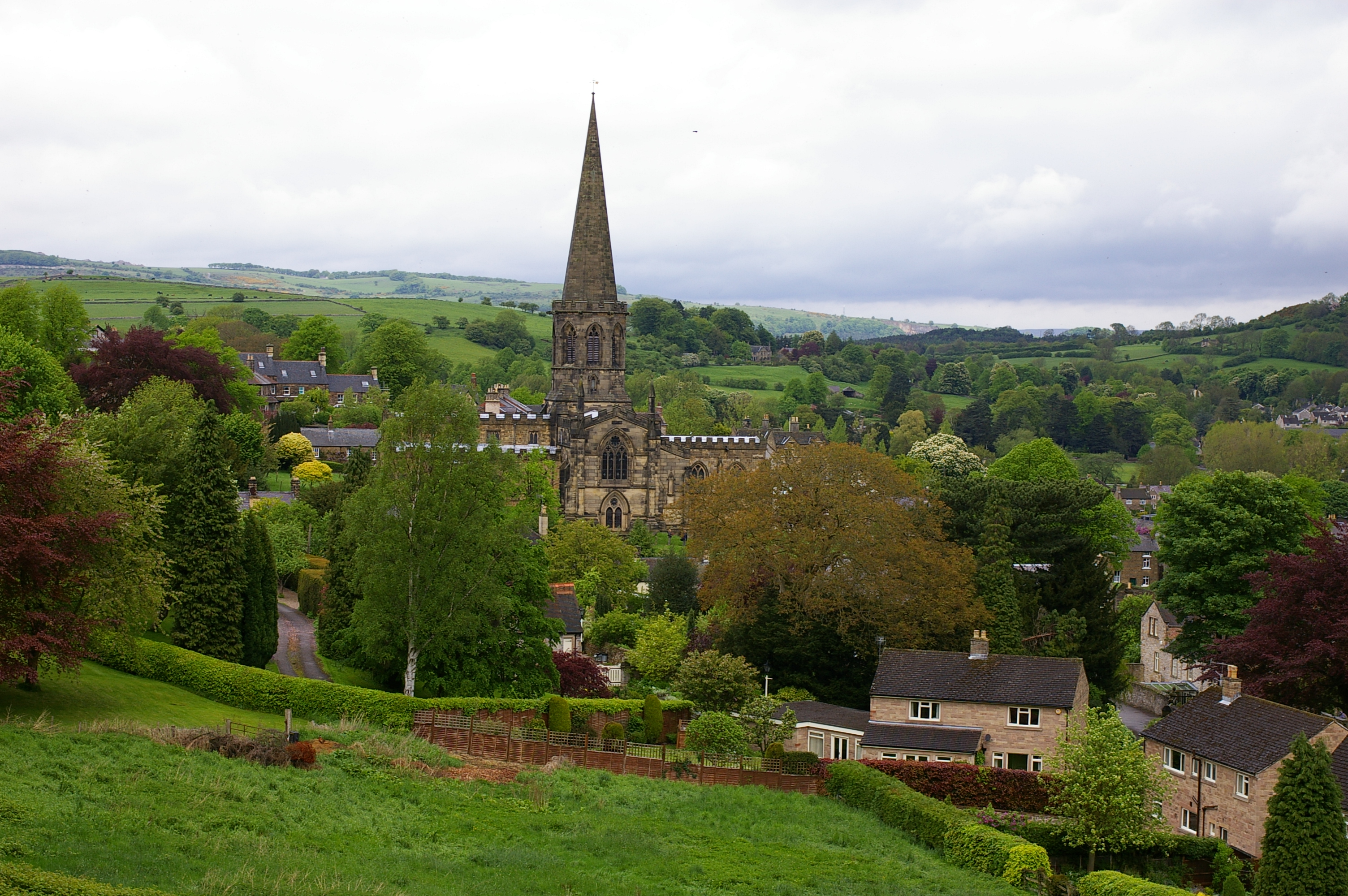 Bakewell in Derbyshire - the Parish Church taken from the south looking north towards Baslow.